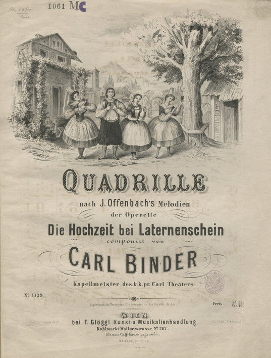 Quadrille by Carl Binder on melodies from Jacques Ofenbach's operetta Le mariage aux lanternes, title page with engraving by S. Fexer